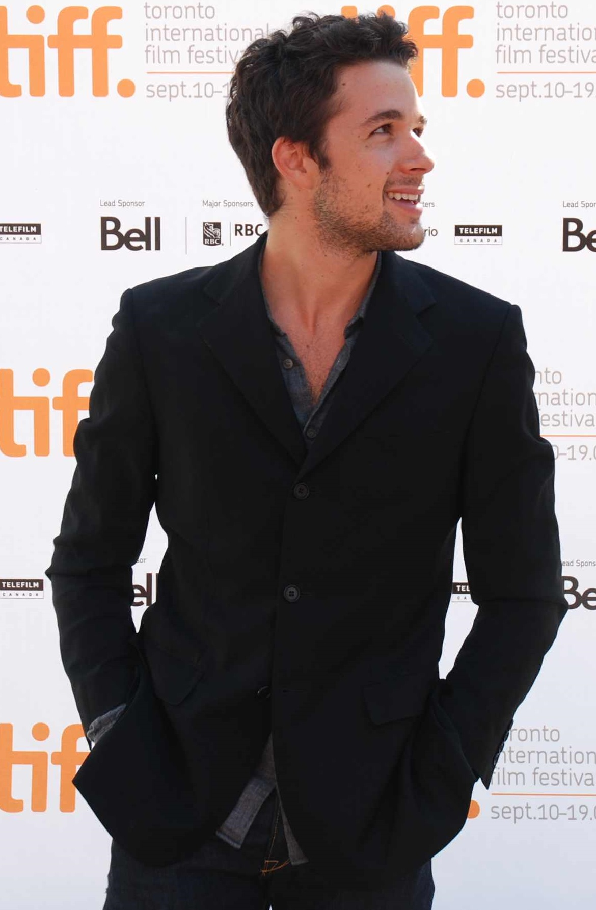 Marc Bendavid at the 2009 Toronto International Film Festival